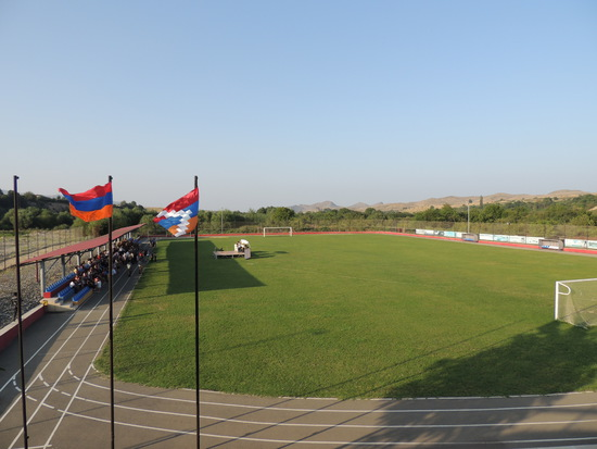 Askeran City Stadium, Nagorno-Karabakh Republic.